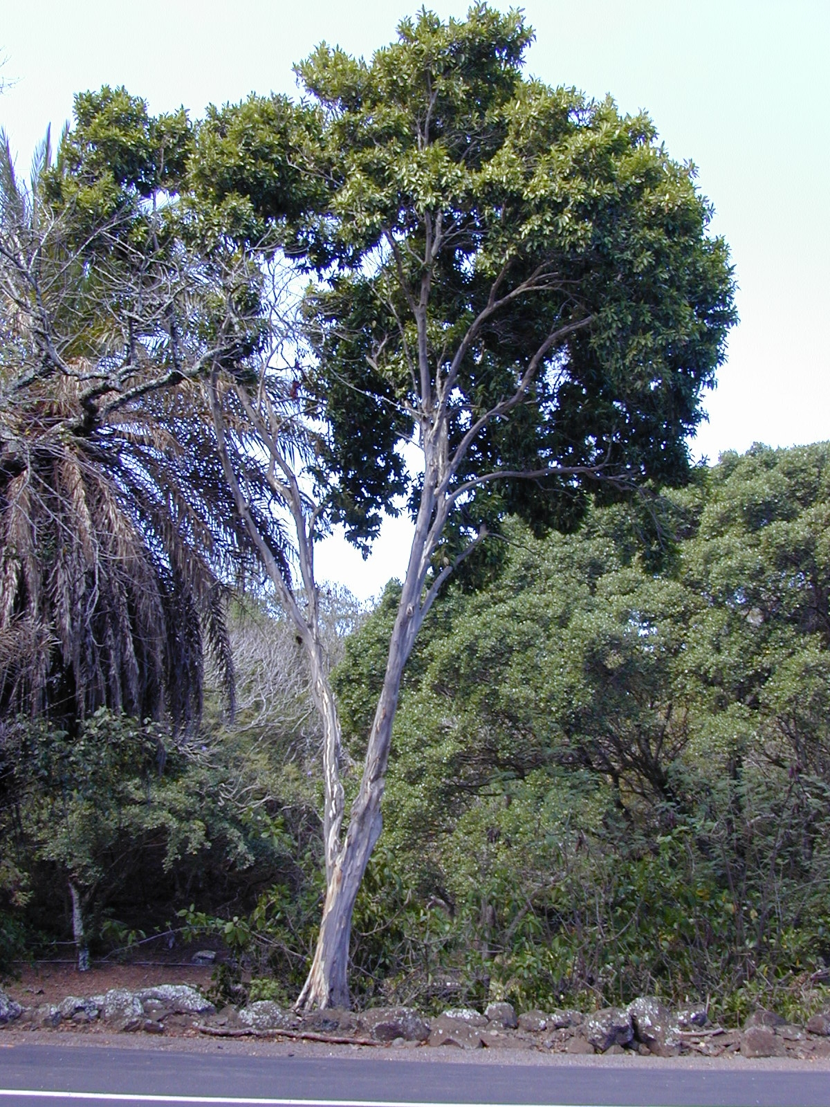 Pimenta dioica (habit). Location: Maui, Rainbow Park Paia